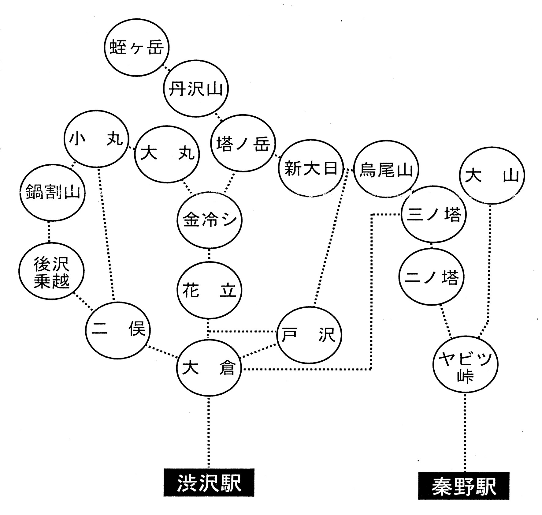 Simple map of Tanzawa mountain region Japan